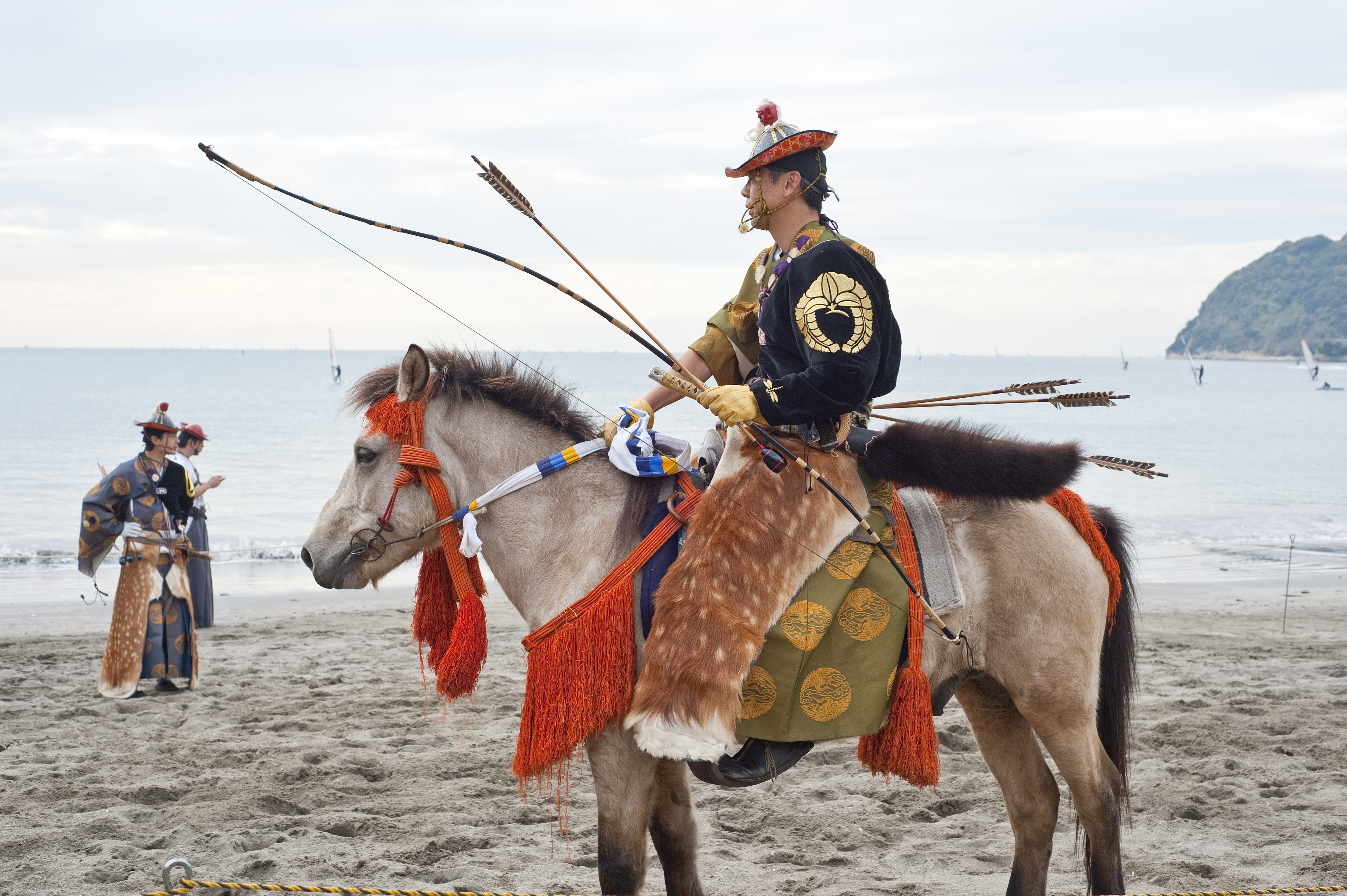 Yabusame in Zushi, November 2010